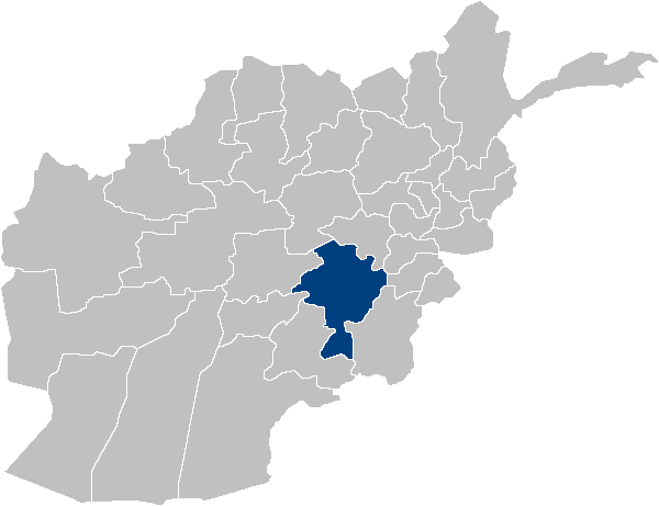 Location map for Ghazni Province in Afghanistan. Original map source: Image:Afghanistan_provinces_blank.png